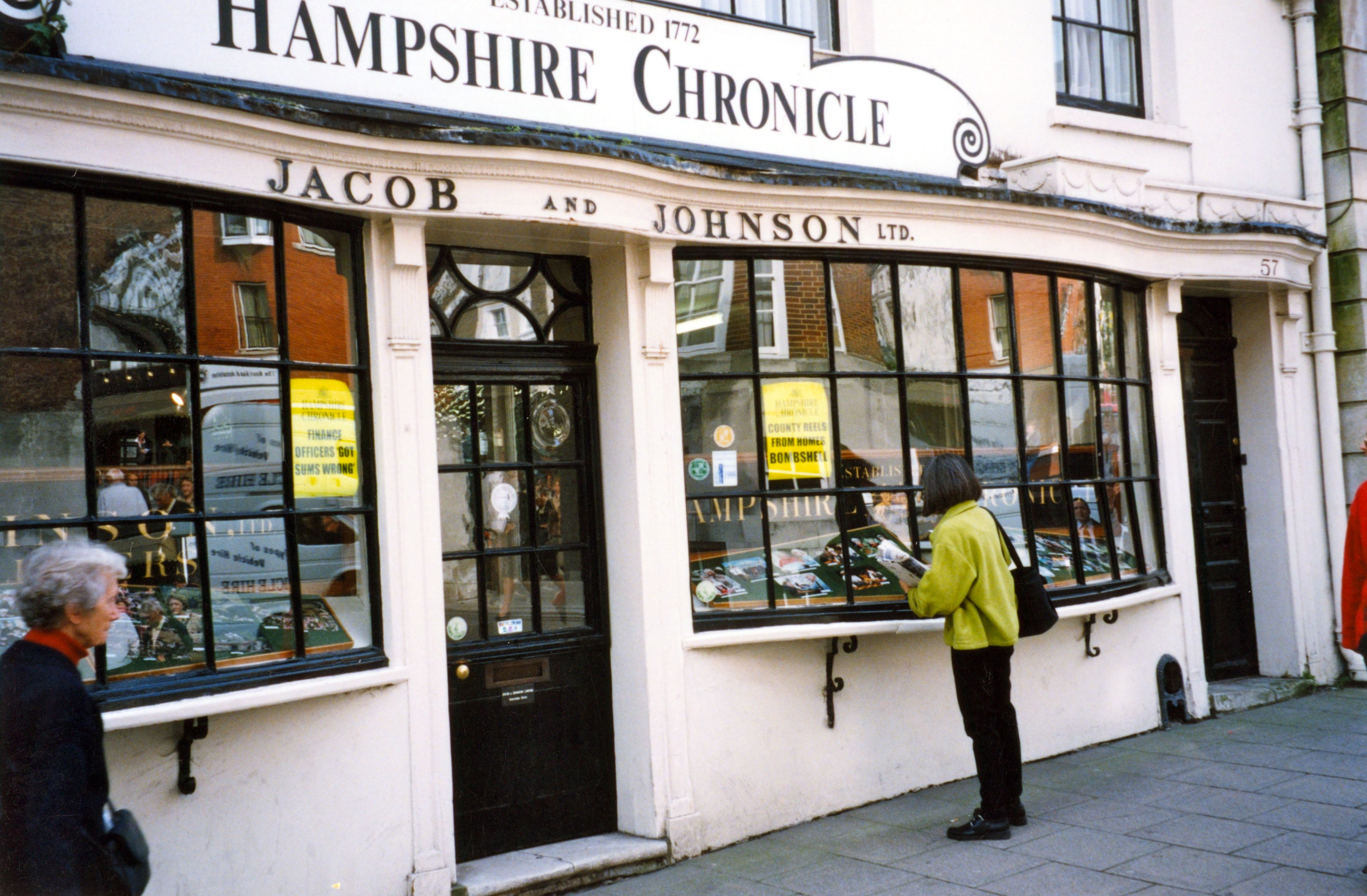 Woman looking in front window of Hampshire Chronicle newspaper, 1999. Other information Photo by George Garrigues.